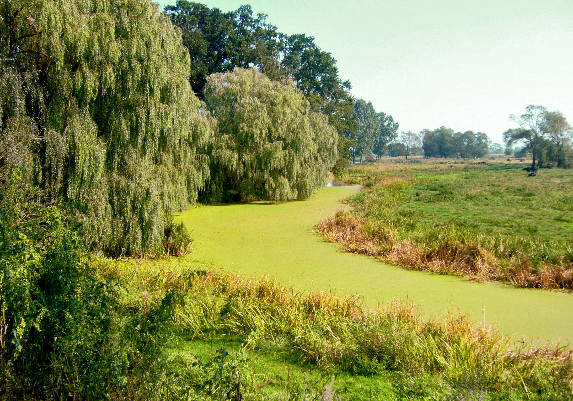 Noteć river in Tur